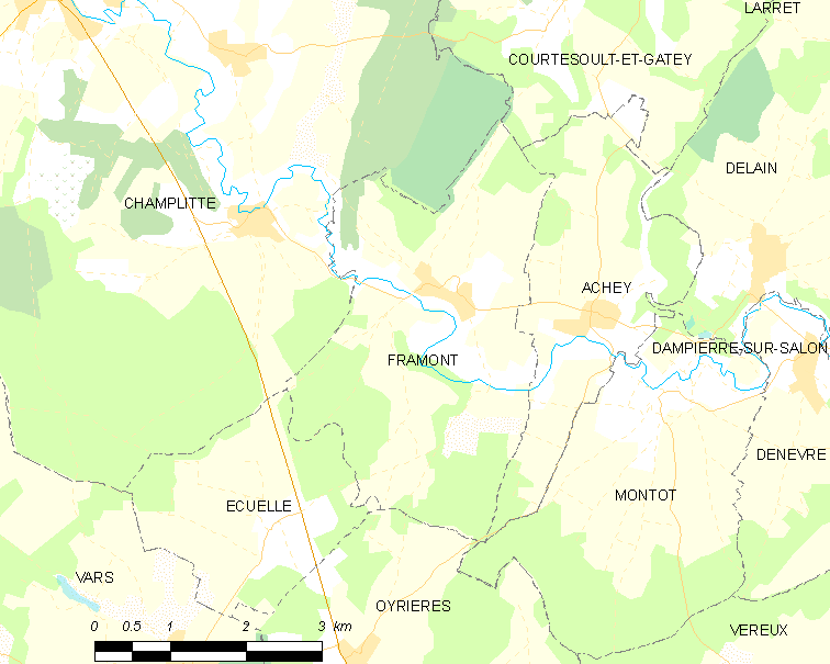 Map of French municipality